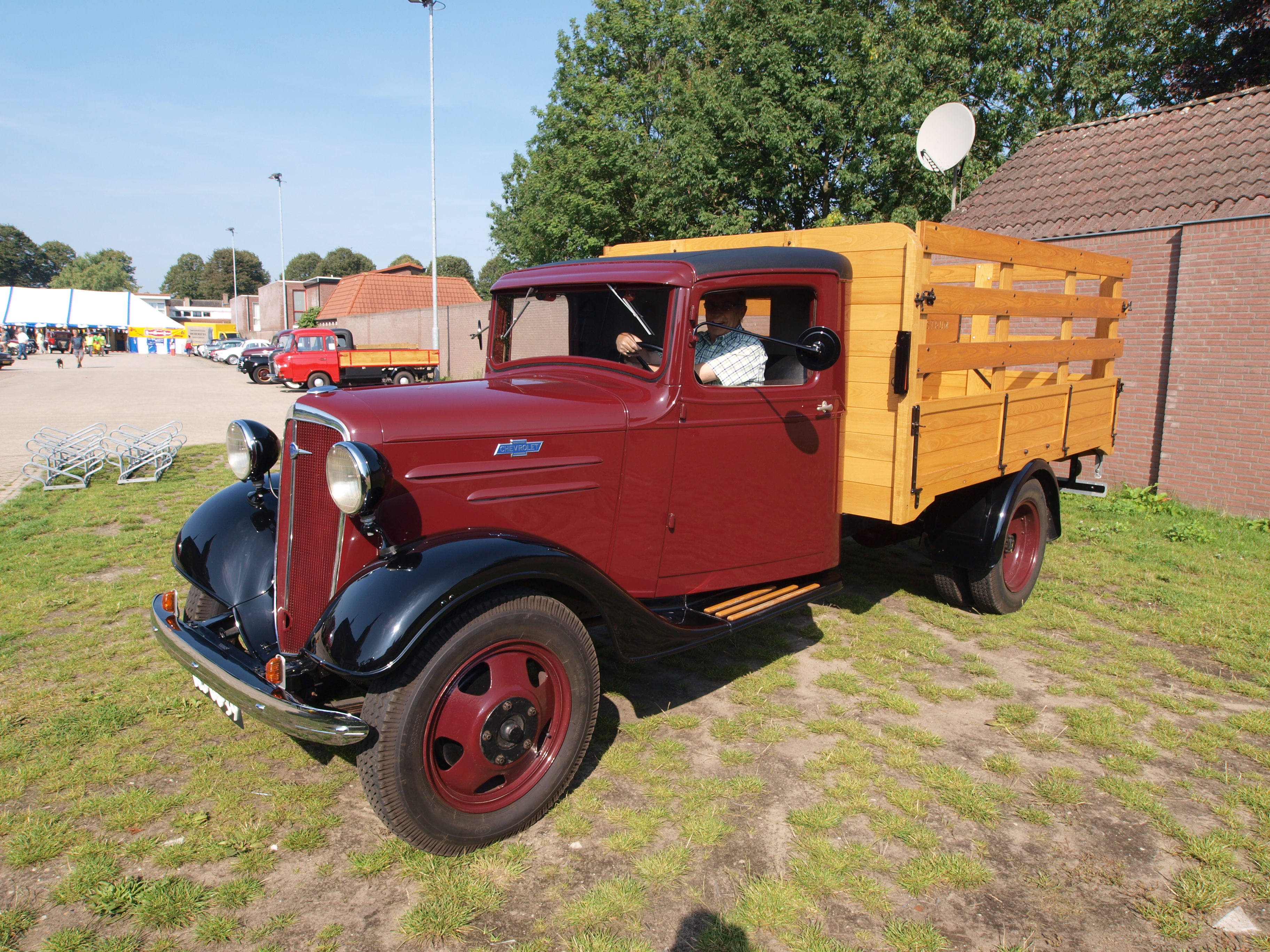 Photographed at the Classic Vehicle meeting 'Klassiek Mechaniek Zeeland 2011', The Netherlands.